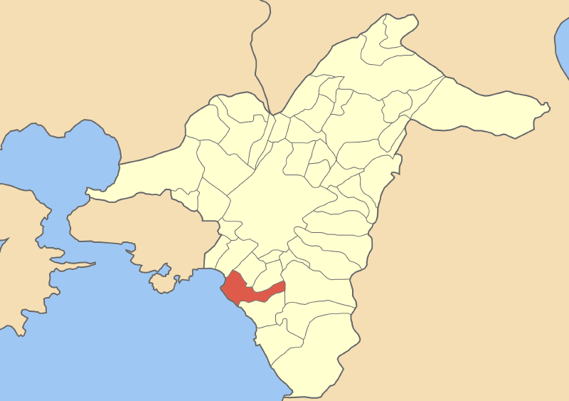 Locator map of Paleo Faliro municipality (Δήμος Παλαιού Φαλήρου) in Athina Nomarchia (Νομαρχία Αθηνών) in Greece.